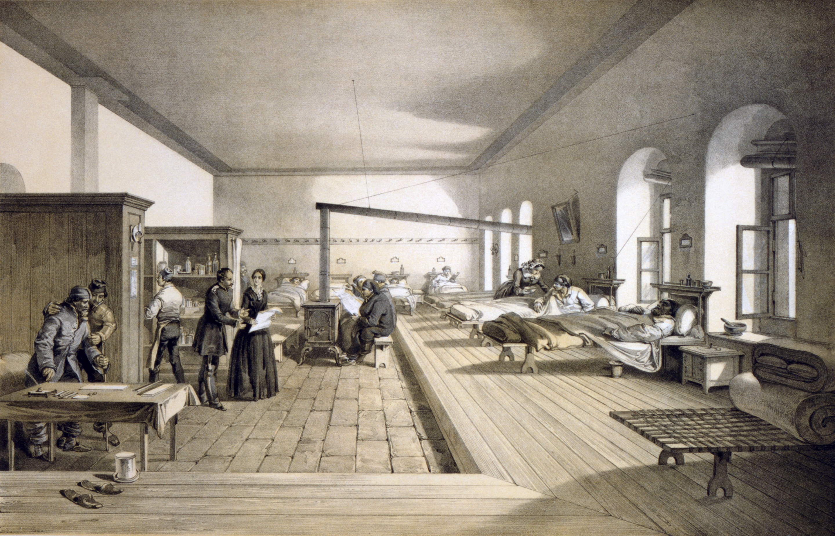 One of the wards of the hospital at Scutari / W. Simpson del. ; E. Walker lith. ; Day & Son, Lithrs. to the Queen.